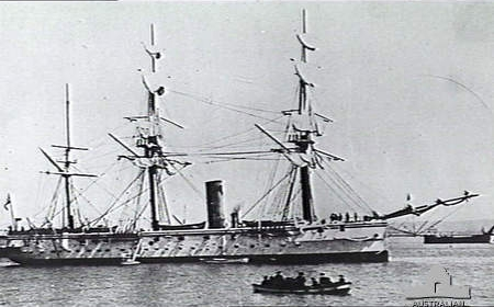 Photograph of British Amrthyst class screw corvette HMS Encounter.